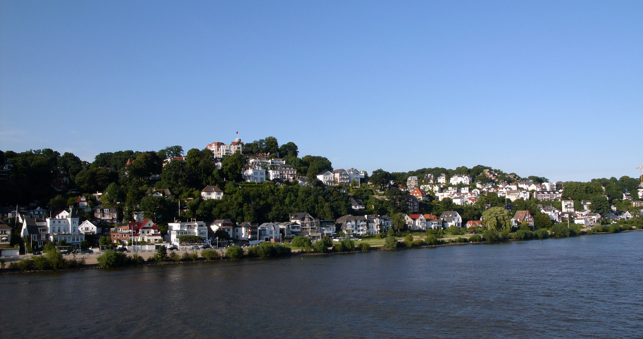 Hamburg Blankenese as seen from the river Elbe